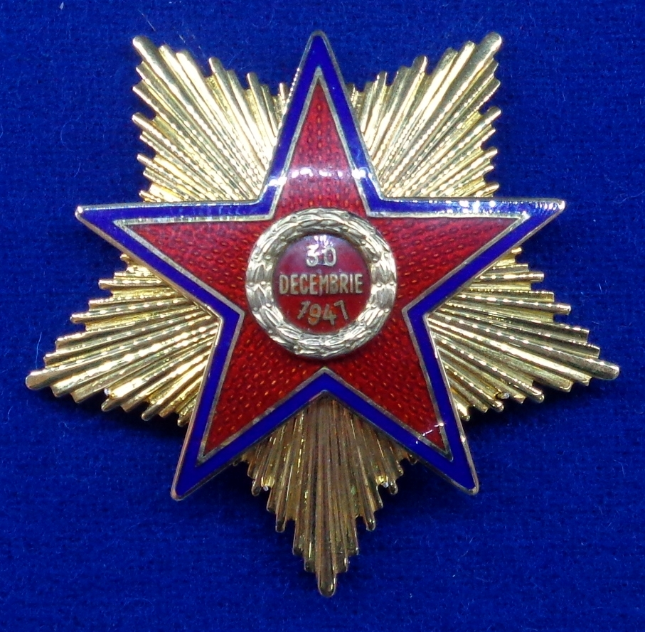 Order of the Star of Romanian People's Republic 1st class, 1st model. Romania. The exhibition of the Tallinn Museum of Orders of Knighthood, Estonia.